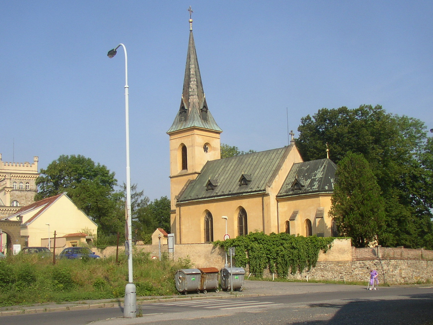 St George church in Prague-Hloubětín, Czech Republic).